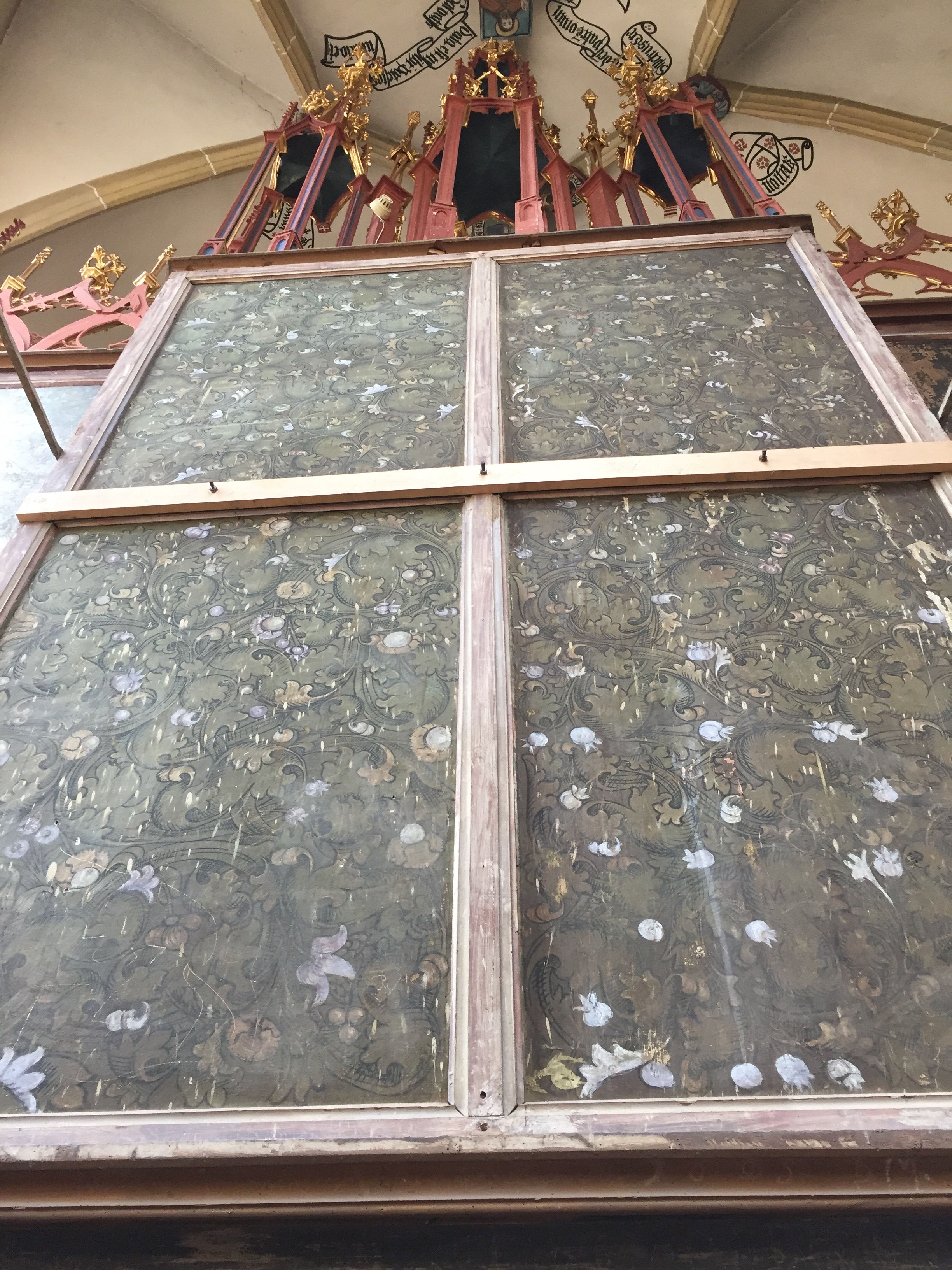 Back side of the winged altarpiece in St. Margaret's church, Mediaș, Sibiu County, Romania, showing late gothic painted decoration.